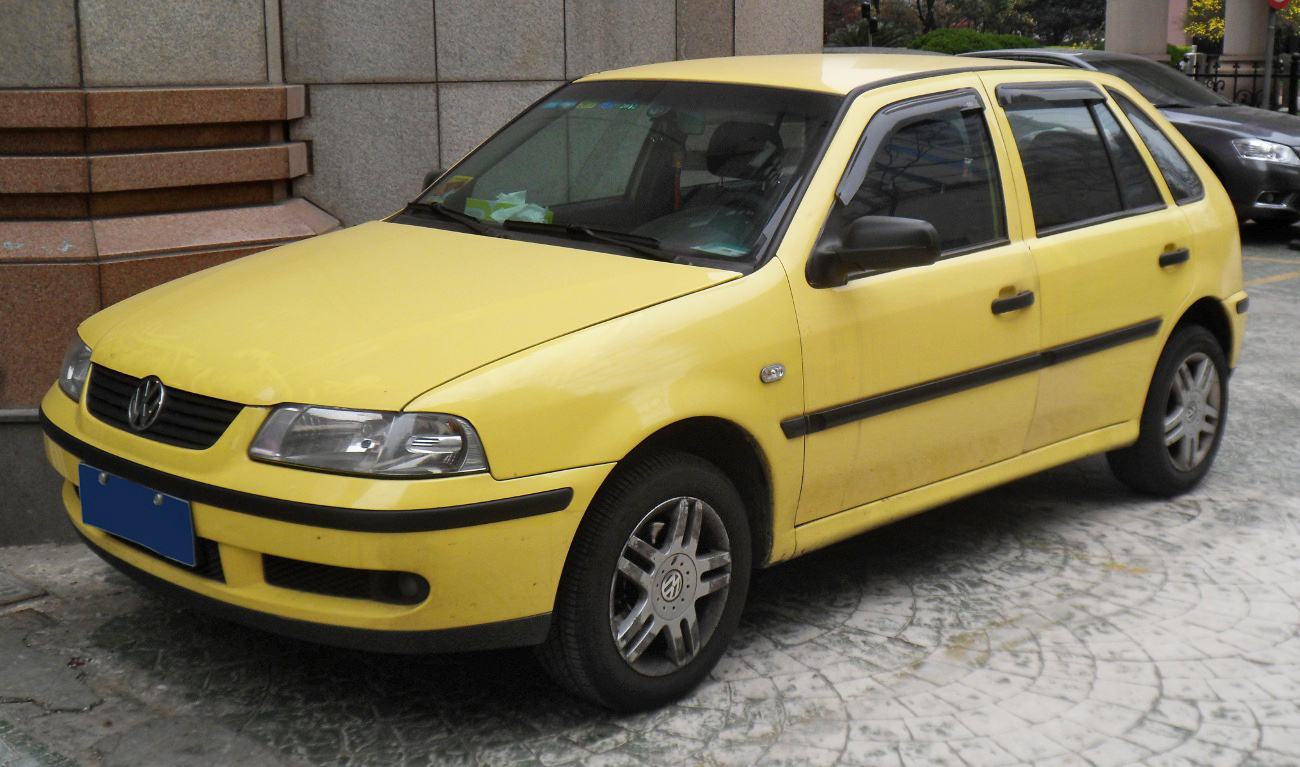 Volkswagen Gol II facelift photographed in Shanghai, China.